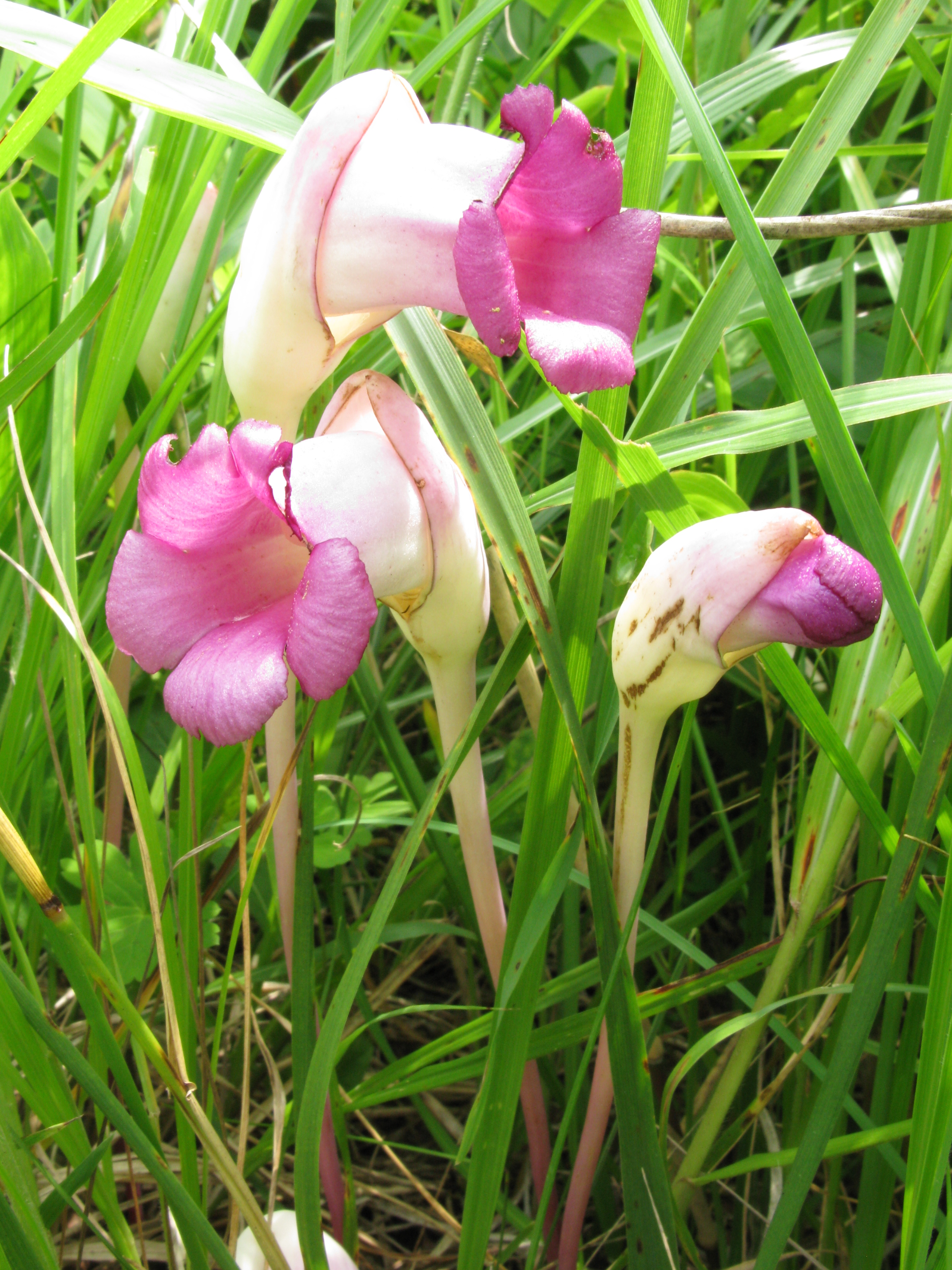 Aeginetia sinensis, Aizu area, Fukushima pref., Japan